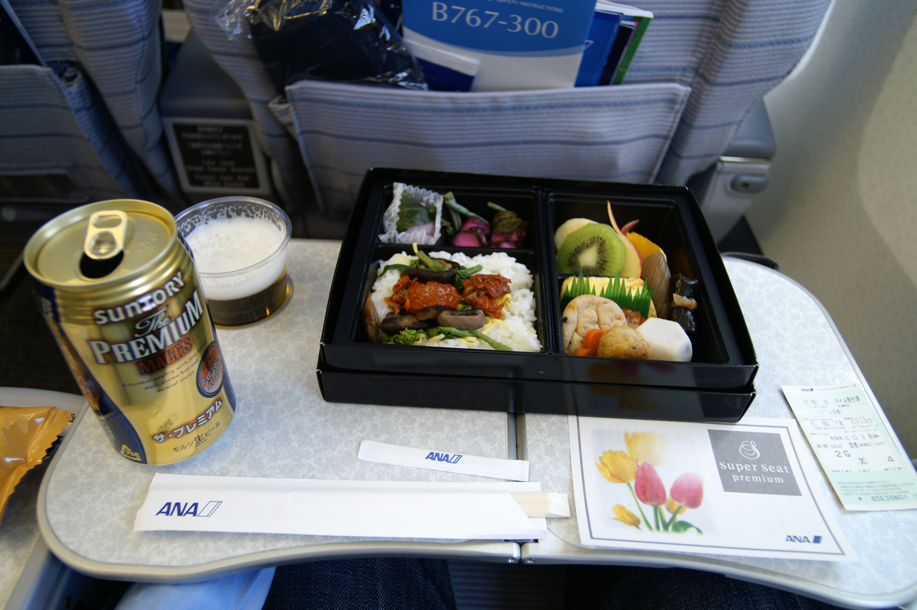 まだ11時20分を過ぎたところですが、昼食が出ました。 (2006/05/13 In Flight, NH401, JAPAN) /* Flight Data */ Airline: All Nippon Airways (NH/ANA) Airplane: Boeing 767-381 (JA8363) Flight No.: NH401 From: Kobe Airport (UKB/RJBE) To: New Chitose Airport (CTS/RJCC) Seat No.: 2G Class: Super Seat Premium (S) /*Menu*/ Ganmodoki: One of a processed food of tofu Ninjin-ni: Boiled food of carrot and taro Konnyaku: Paste made from the arum root Ebi-dango: Dumpling of prawn Yaki-Ita: Roasted "Boiled fish paste (Kamaboko)" Konbu-maki: Rolled seaweed Asari-ni: Boiled short-necked clam Ikura: Salmon roe Shiro-Meshi: Boiled rise Shibazuke: pickles in salt and perilla Kappazuke: Pickles of cucumbers Apple Kiwi Fruit Orange Sakura-Mochi: One of a Japanese-style confection in spring season